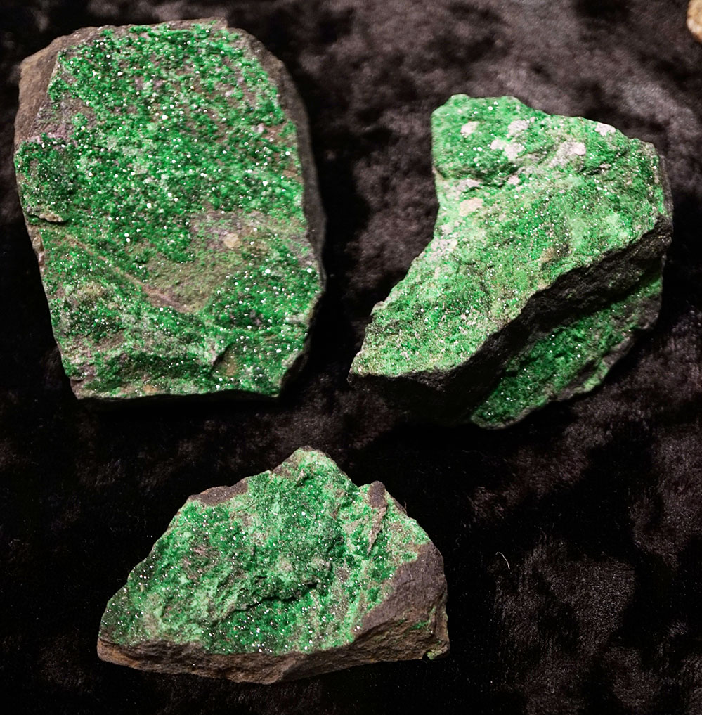 Uvarovite, Naturmuseum Augsburg.